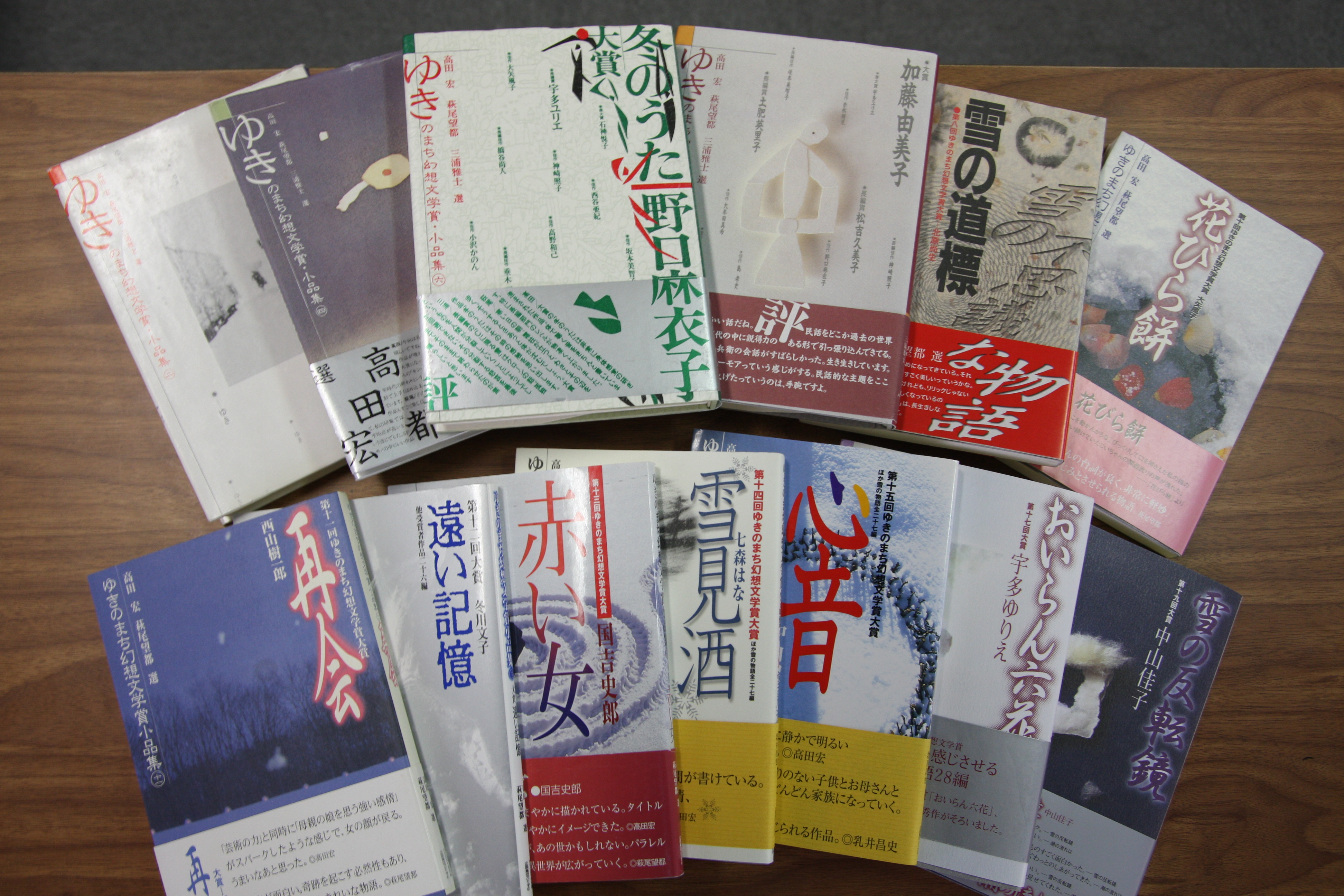 Works of Yuki-no-machi Genso Bungakusyo(Snow Town Short Fantasy Prize)